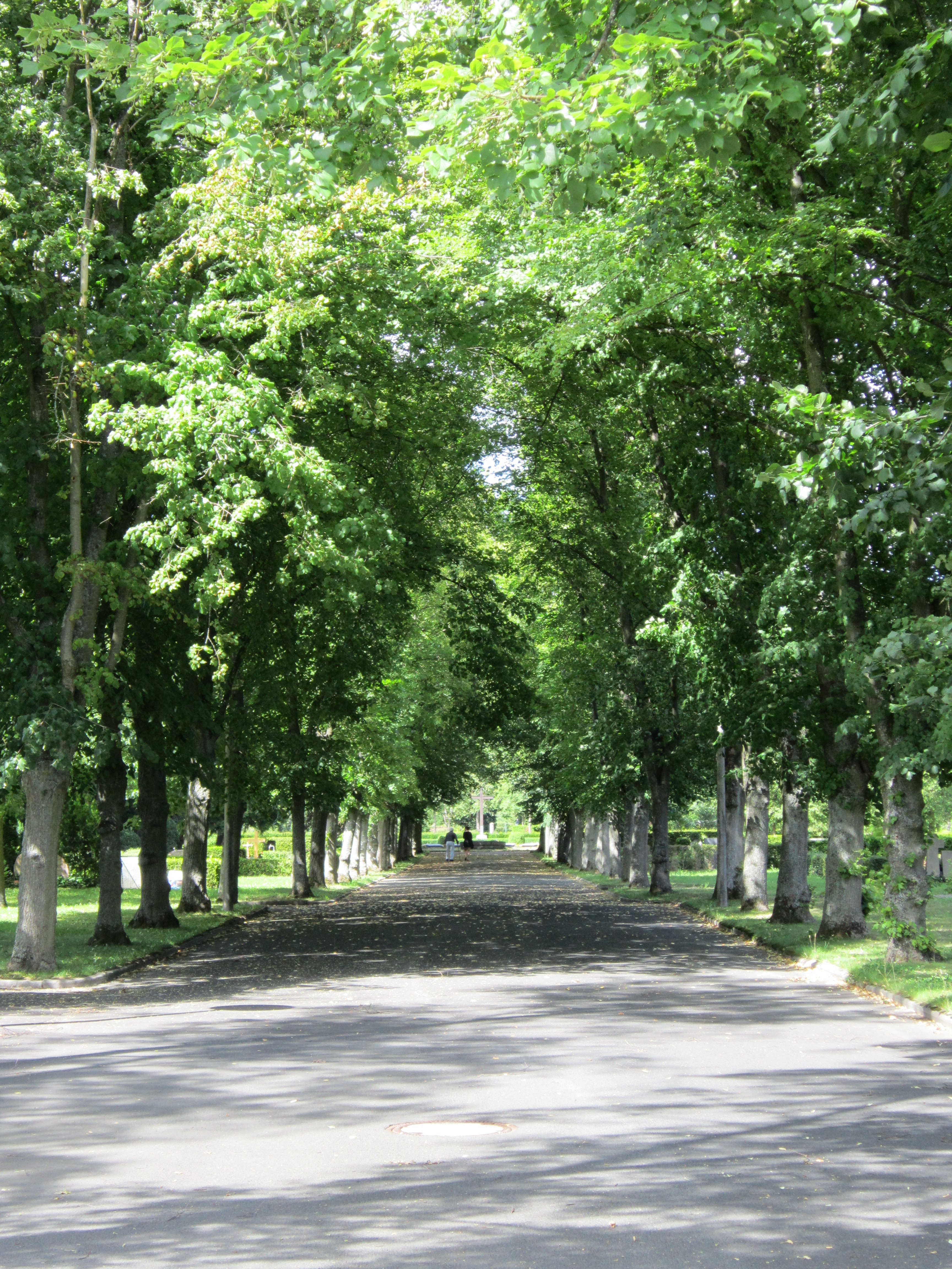 Alley in the "Parkfriedhof" in the Bavarian spa town of Bad Kissingen, Germany.